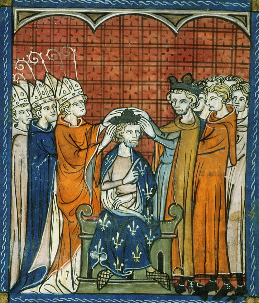 Coronation of Philip II August of France (British Library, Royal 16 G VI f. 331)